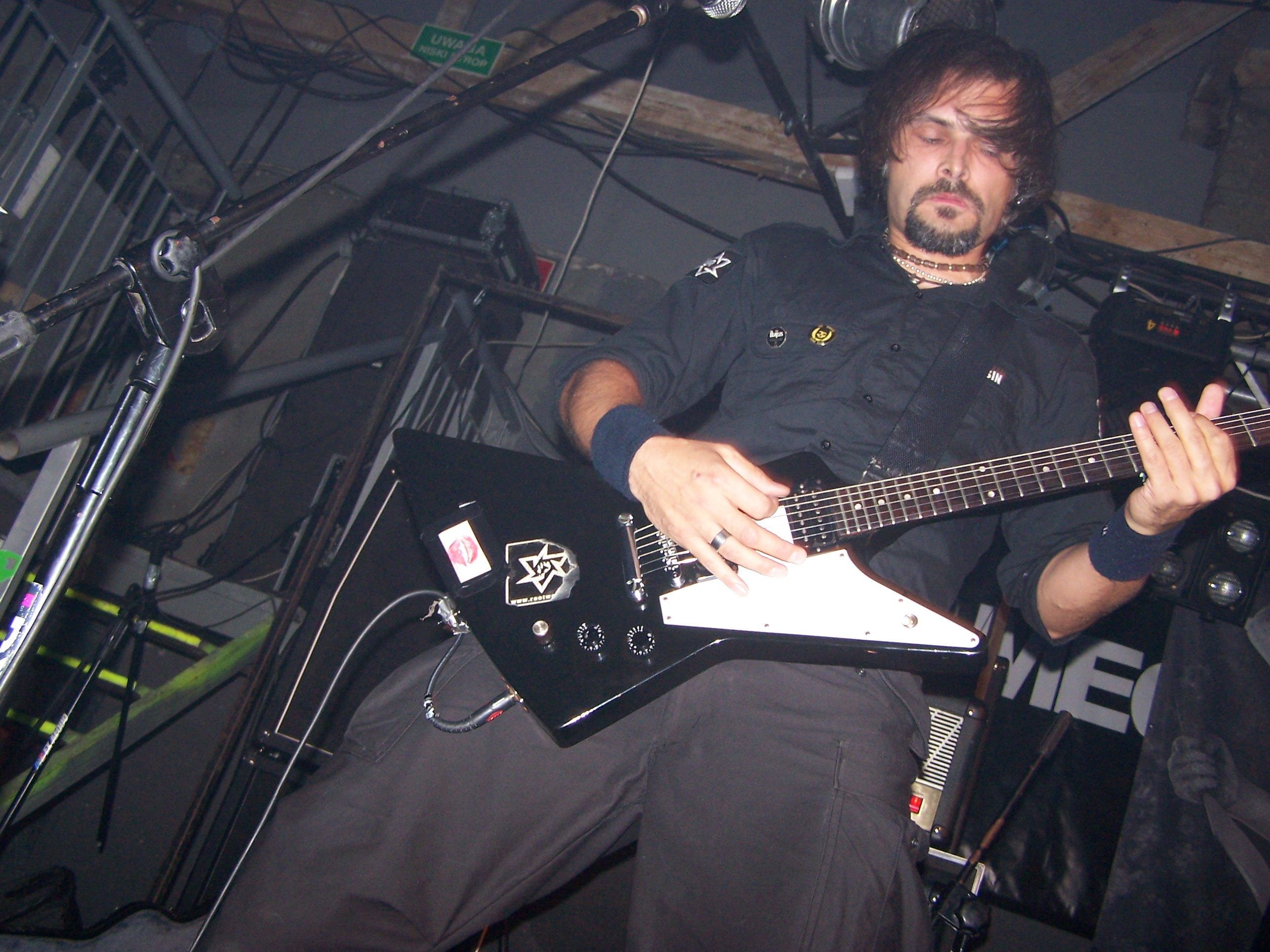 Sebastian Zusin from Rootwater during Polish Apostasy Tour 2007 in Mega Club in Katowice.